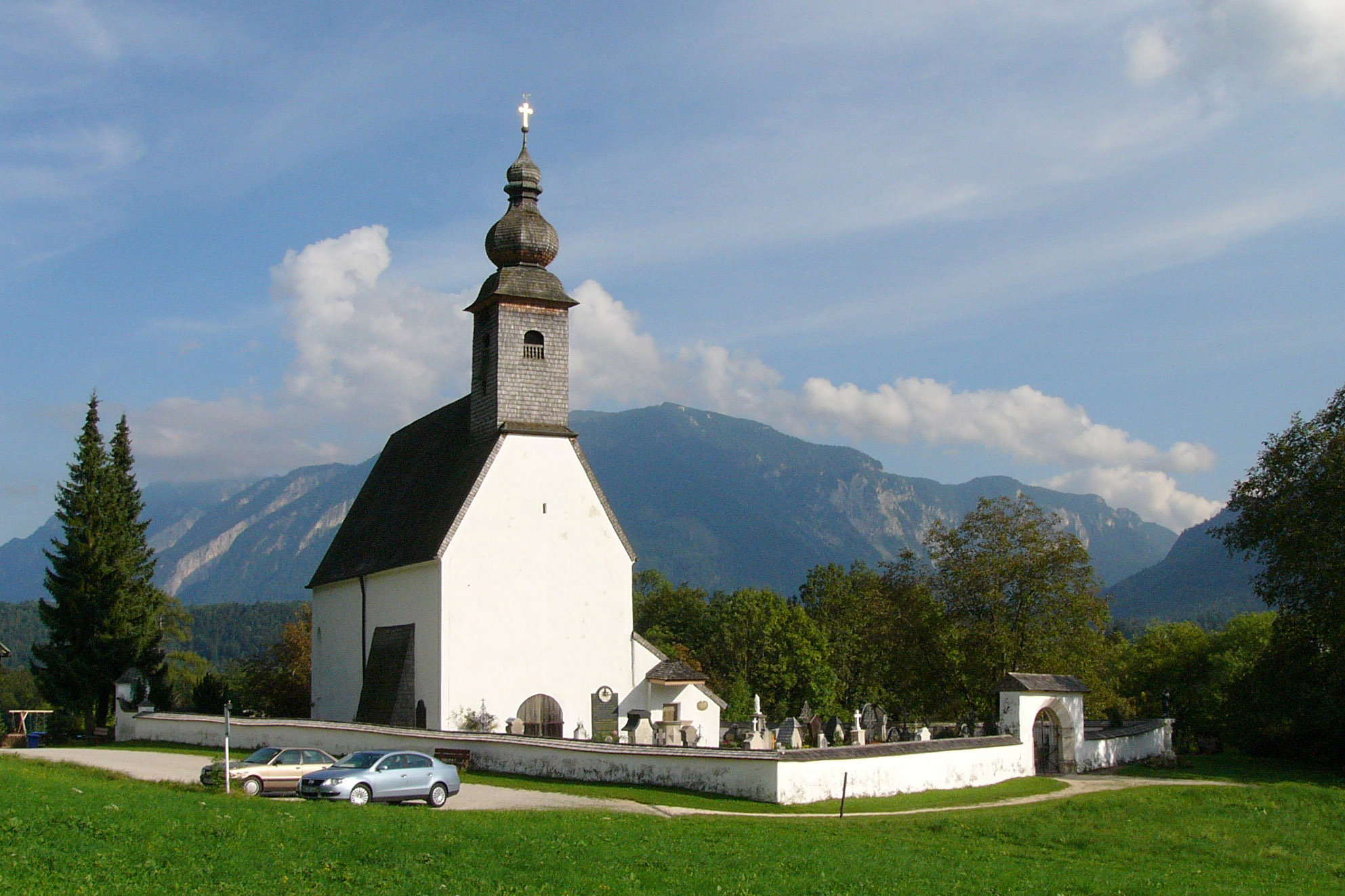 Nonn, exterior view of St George's Subsidiary Church facing south-east.